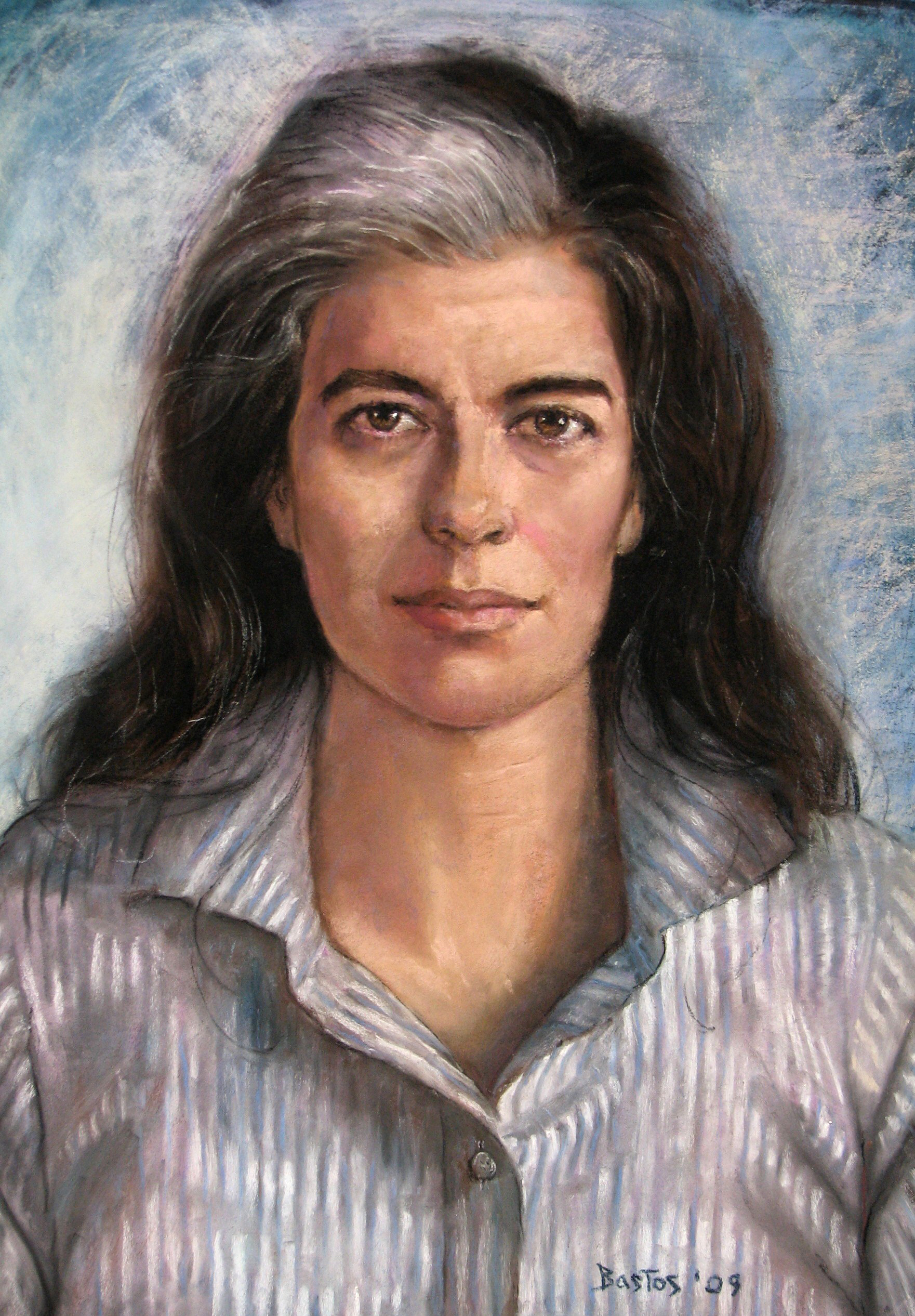 Pastel portrait of Susan Sontag commissioned by the Gay & Lesbian Review for the 2009 May-June cover.